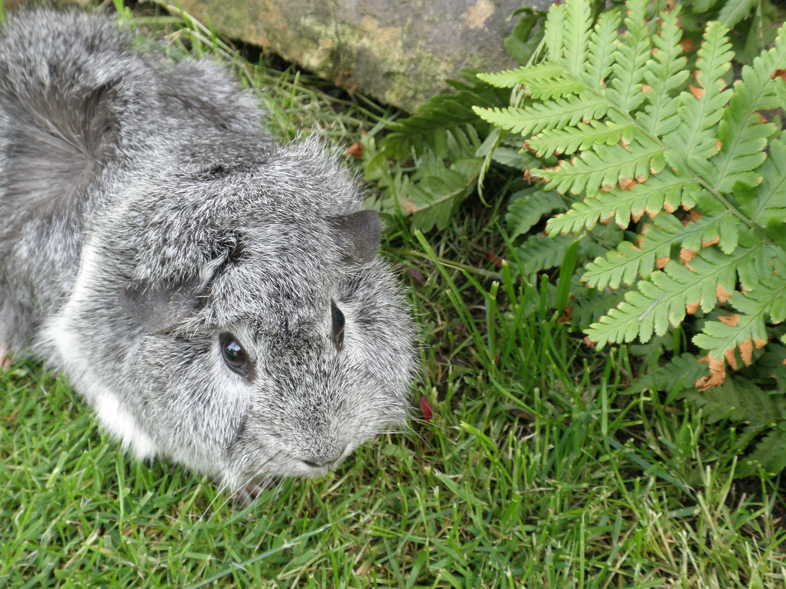 Female guinea pig rosette